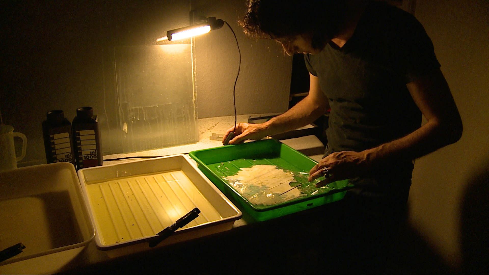 Film still from "In the Darkroom with Steve Sabella" by Nadia Johanne Kabalan